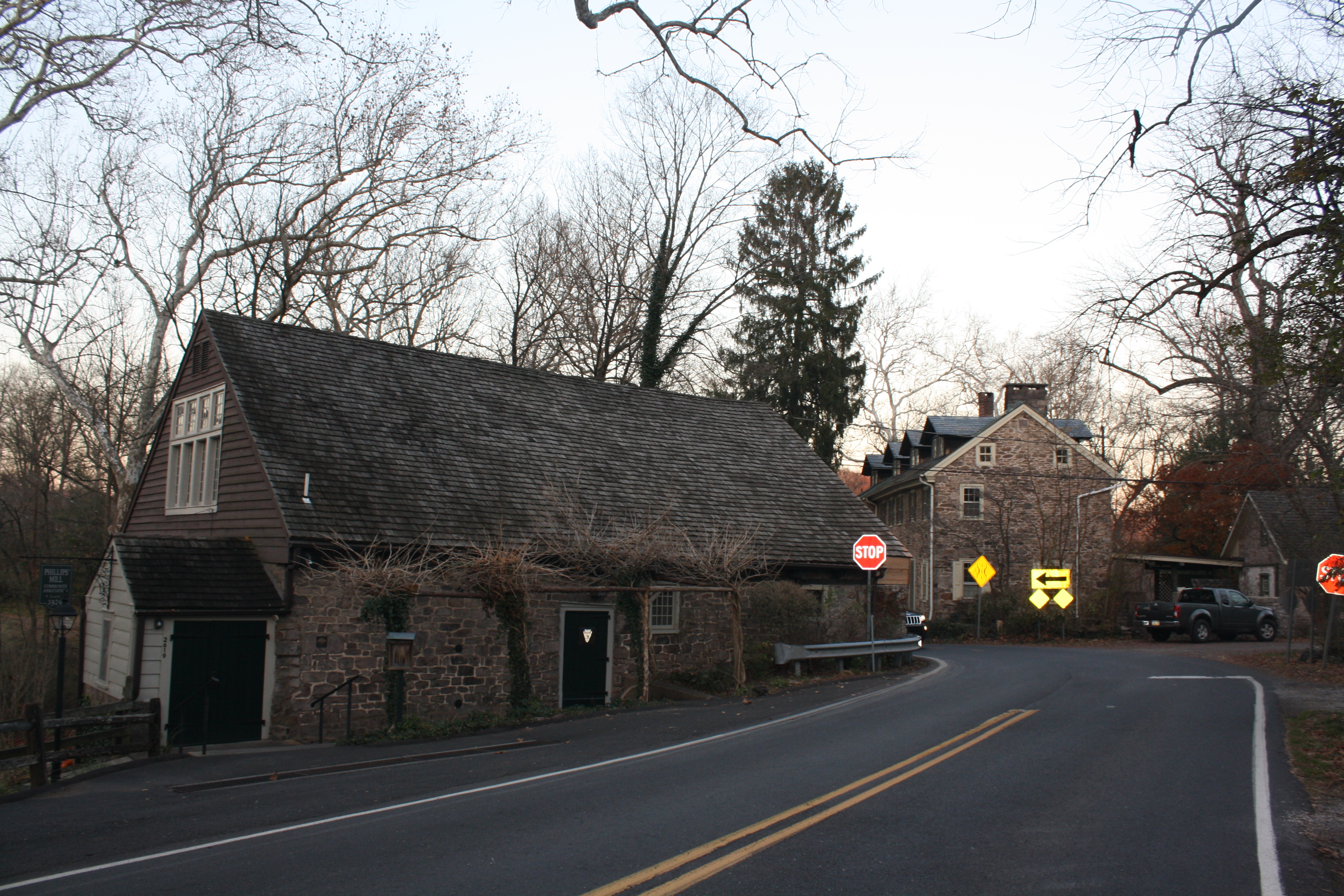 Phillips Mill Historic District is a national historic district located in Solebury Township, Bucks County, Pennsylvania. Object location40° 22′ 58.08″ N, 74° 58′ 09.84″ W